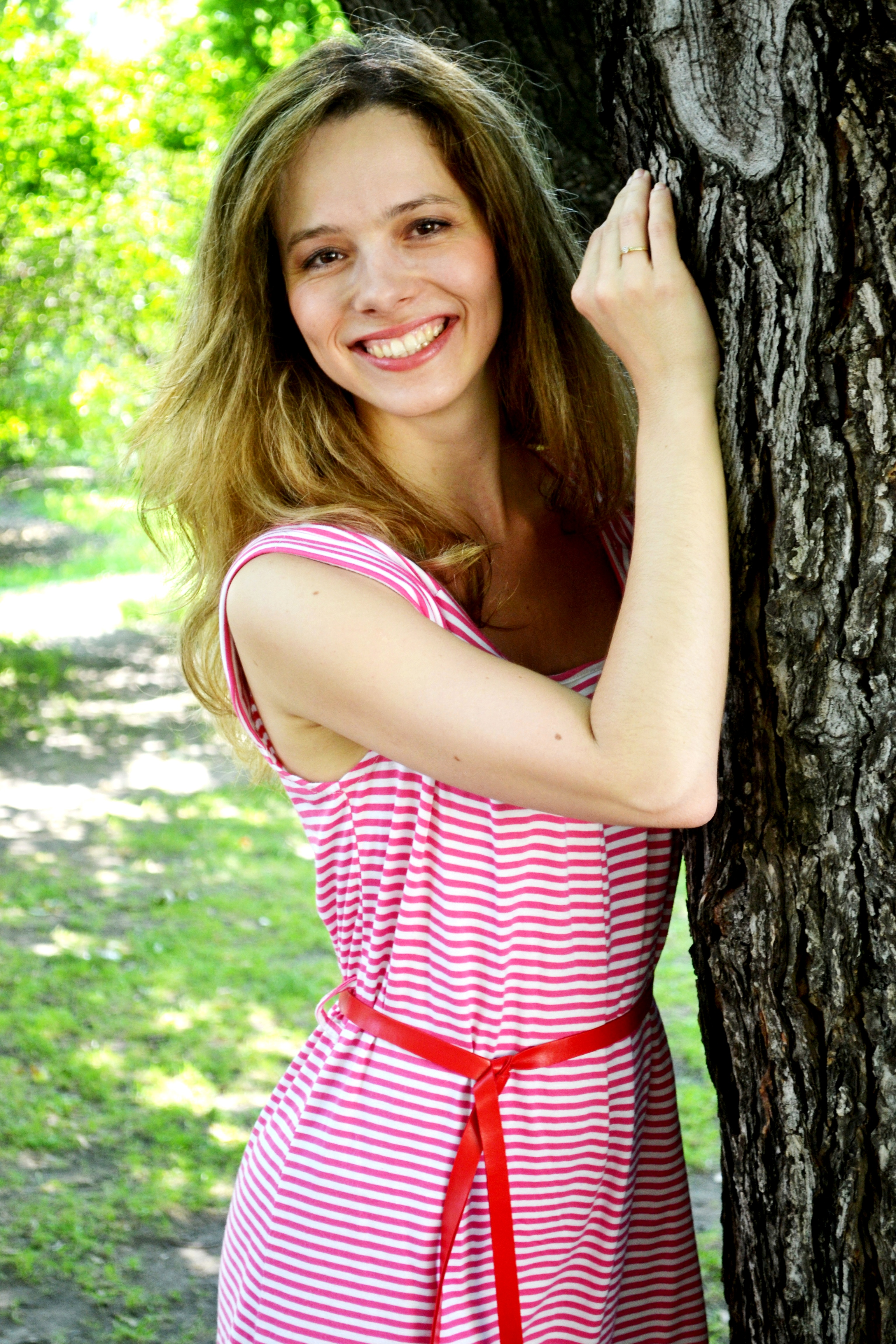 Lucie Černíková, Czech actress